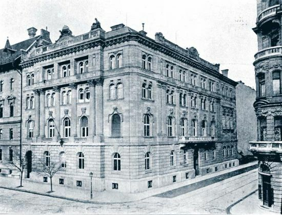 A Budapesti Kereskedelmi és Iparkamara épülete a 20. század első felében - Budapest, V. Alkotmány utca, 11 (Szemere u. sarok)